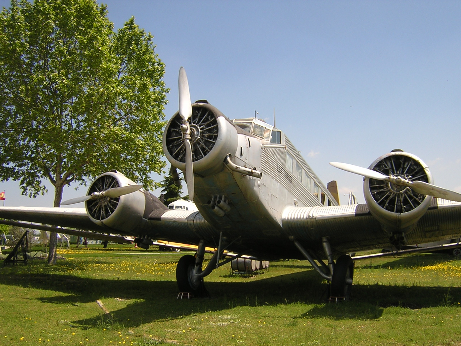 Junkers Ju 52. Aviation museum in Cuatro Vientos, Madrid, Spain.